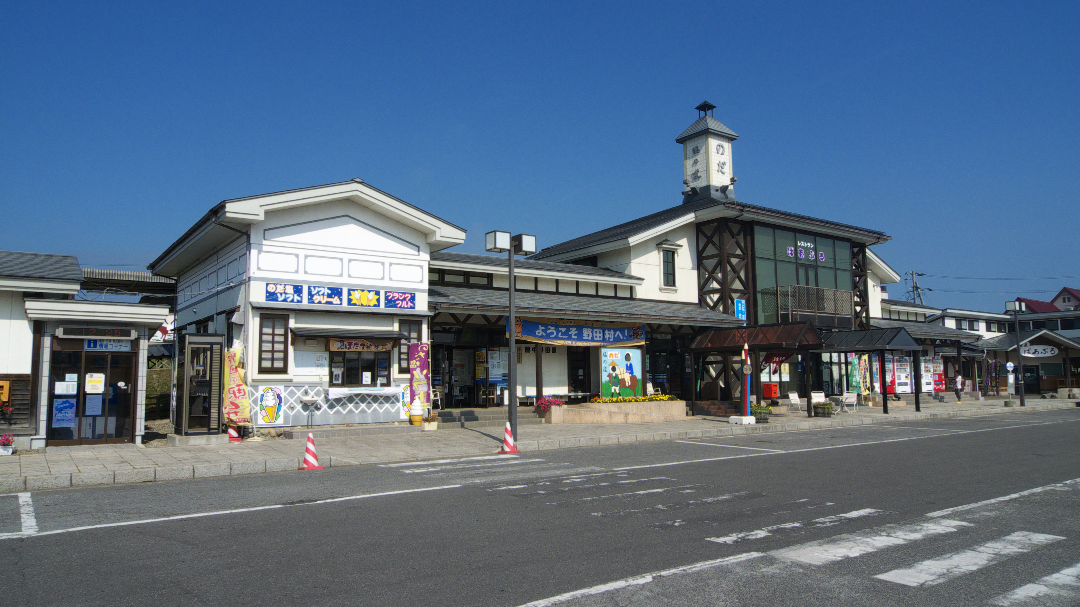 Sanriku Railway Rikuchu-Noda Station and Michinoeki Noda in Noda Village, Iwate Prefecture, Japan